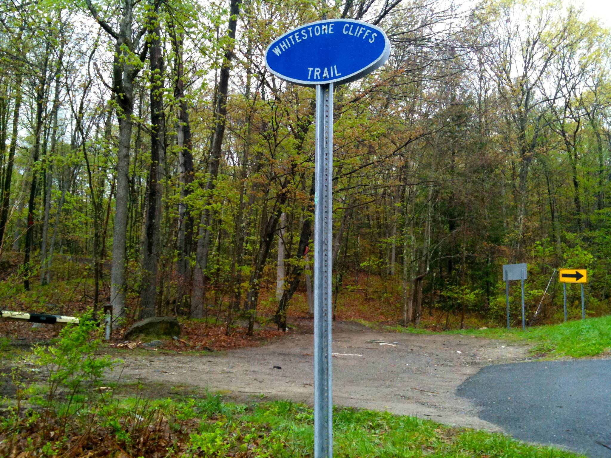 Whitestone Cliffs Trail. Blue-Blazed CFPA "loop" foot path in Mattatuck State Forest. Whitestone Cliffs Trail. Blue-Blazed CFPA "loop" foot path in Mattatuck State Forest. Whitestone Cliffs Trail head sign on Spruce Brook Road / Mt Tobe.